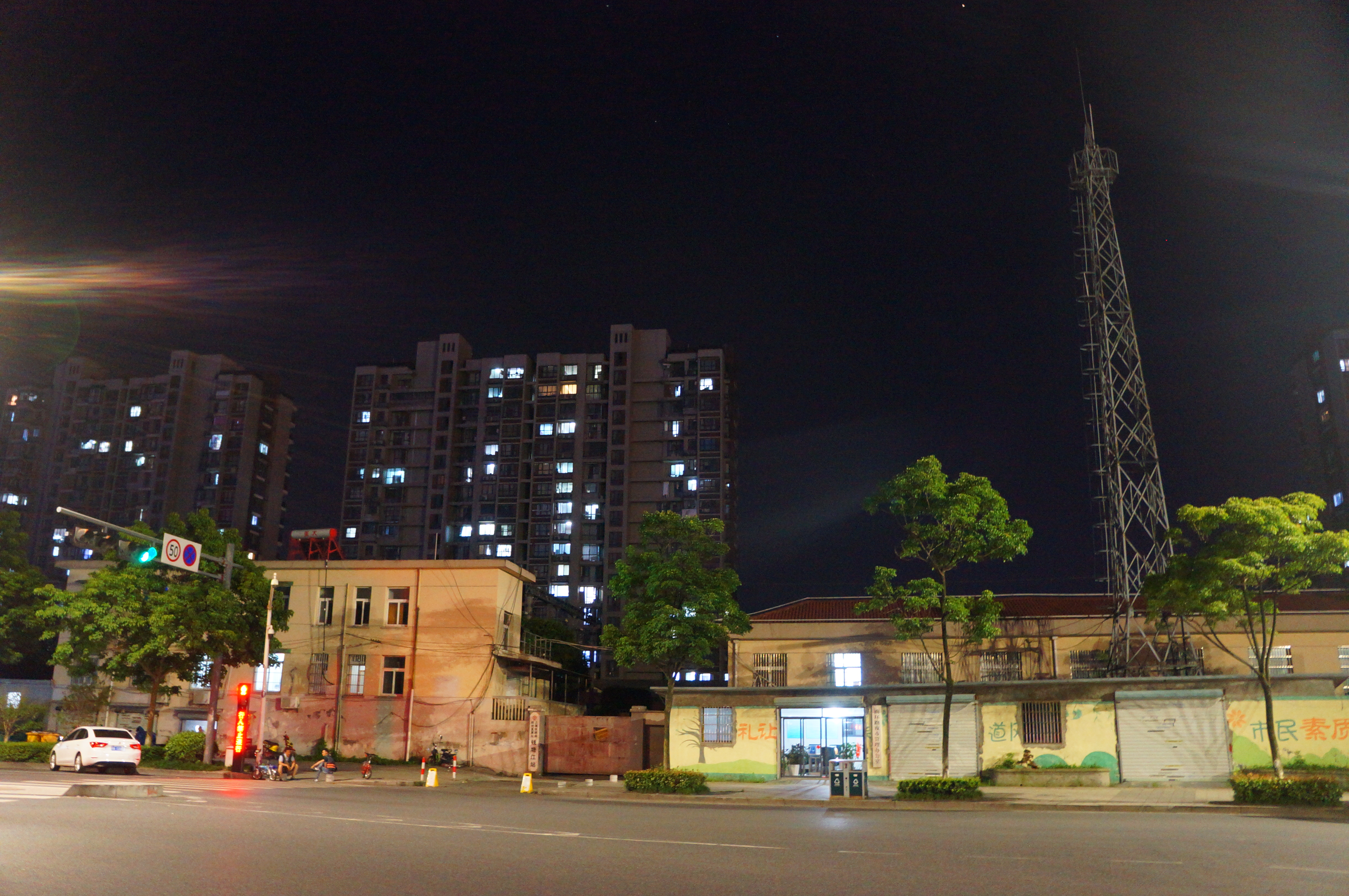 201607 Main Building of Qiantangjiang Station